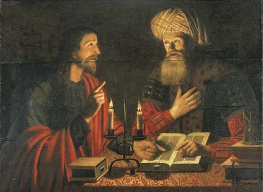 Christ talking with Nicodemus at night (Christus onderwijst Nicodemus)